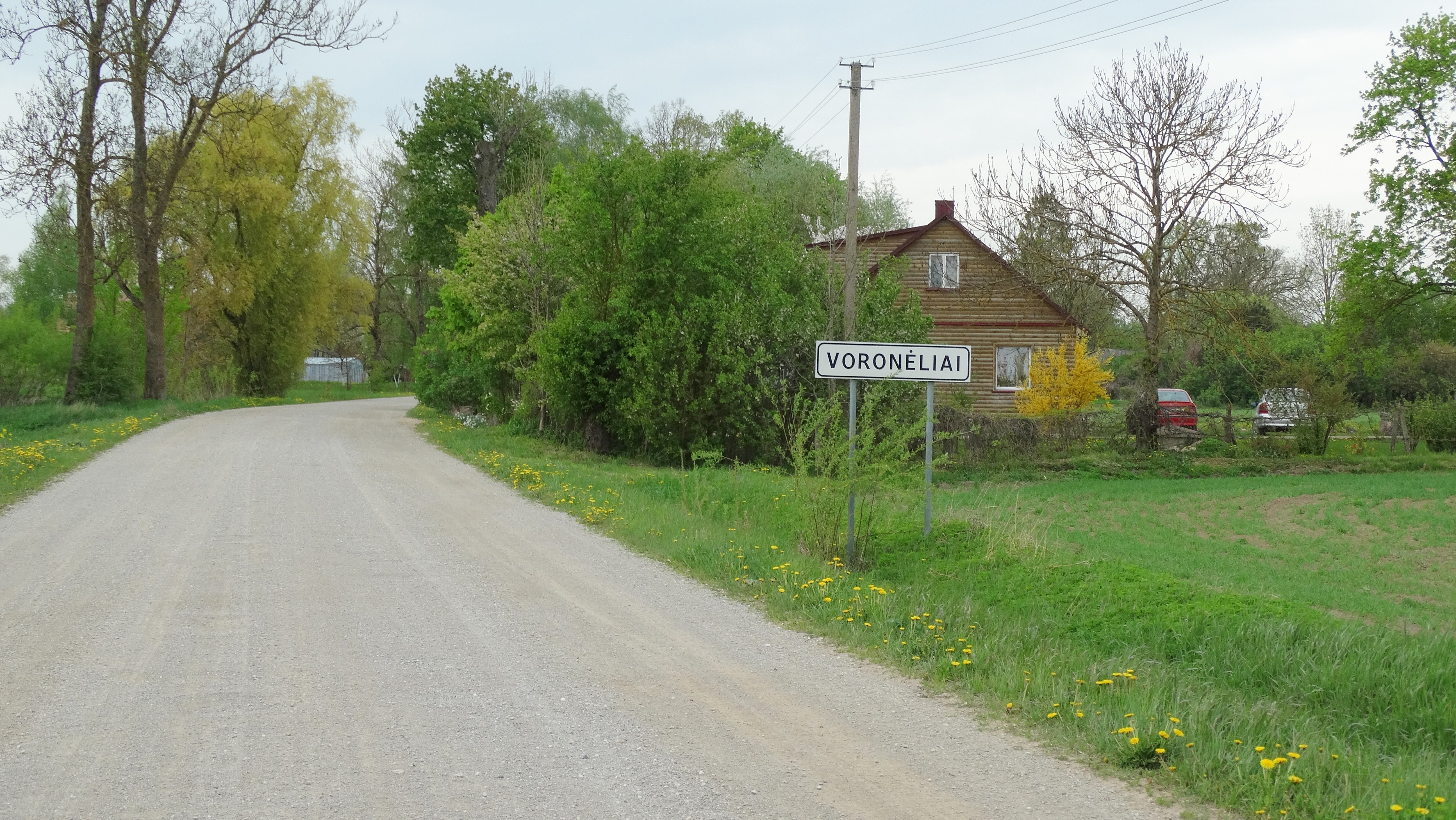 Voronėliai, Pakruojis district, Lithuania